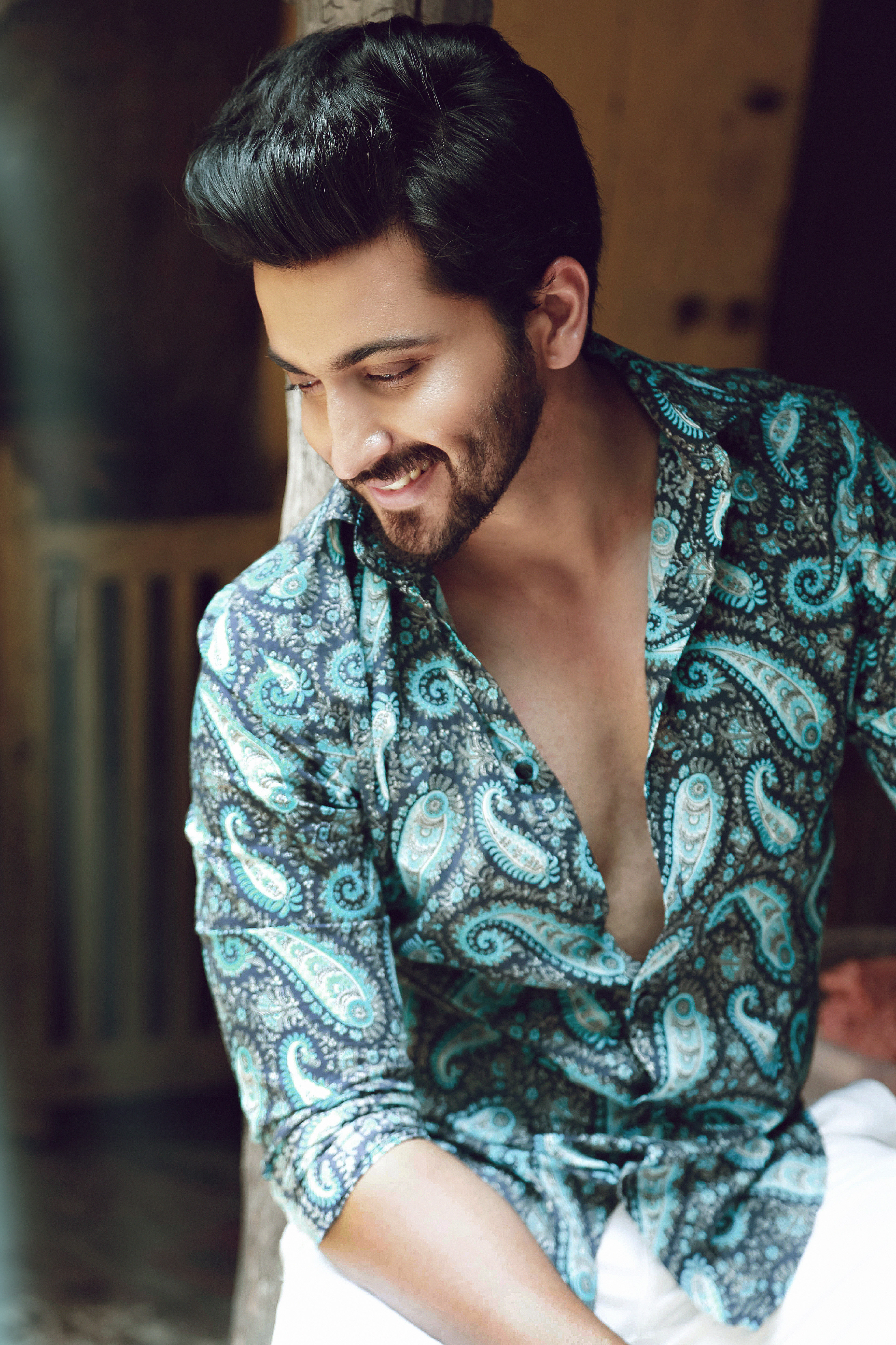 Dheeraj Dhoopar a well know face in the entertainment industry